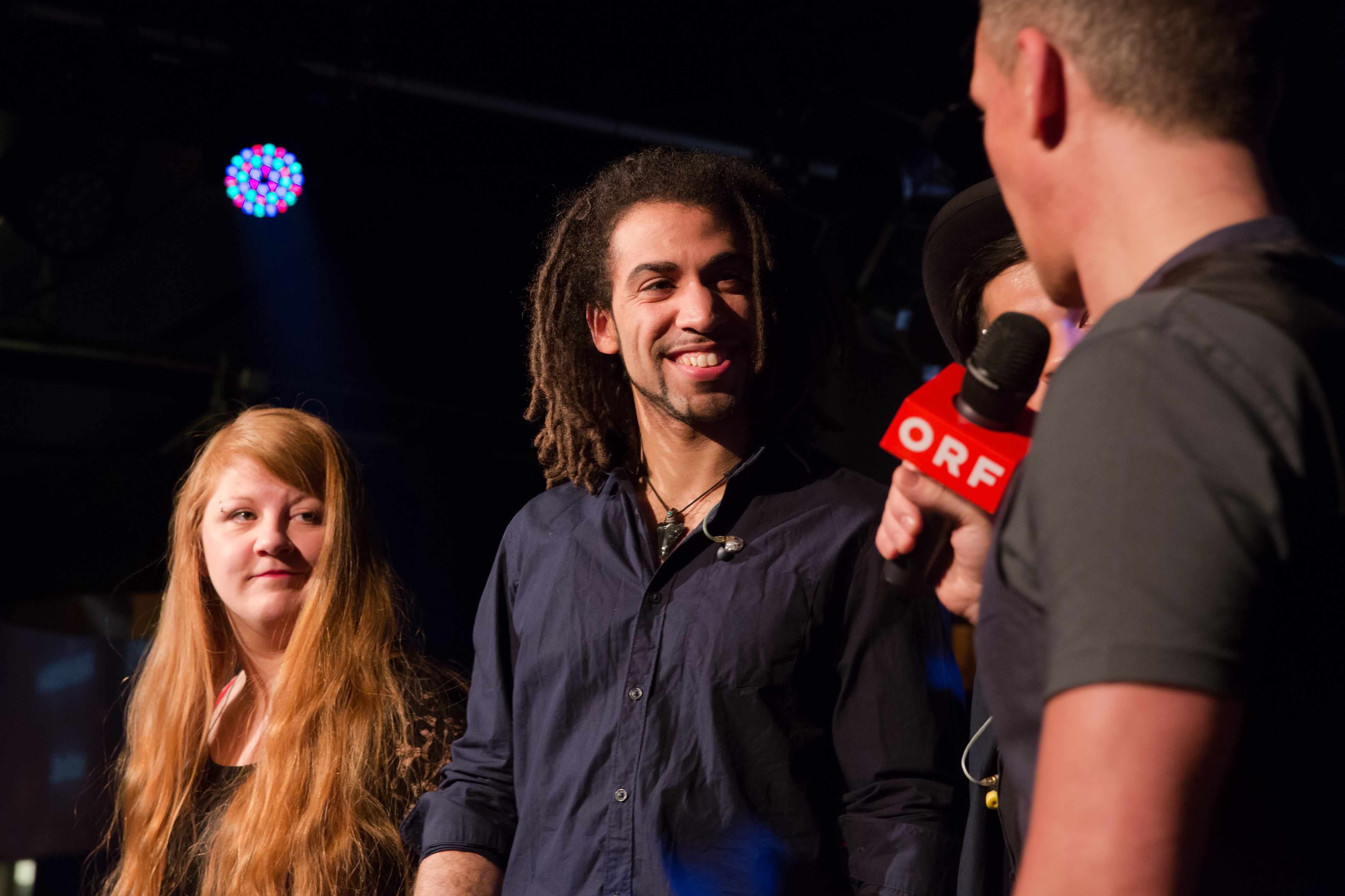 DAWA at the concert of the Austrian candidates for participating at the Eurovision Song Contest 2015; Chaya Fuera, Vienna,Austria.